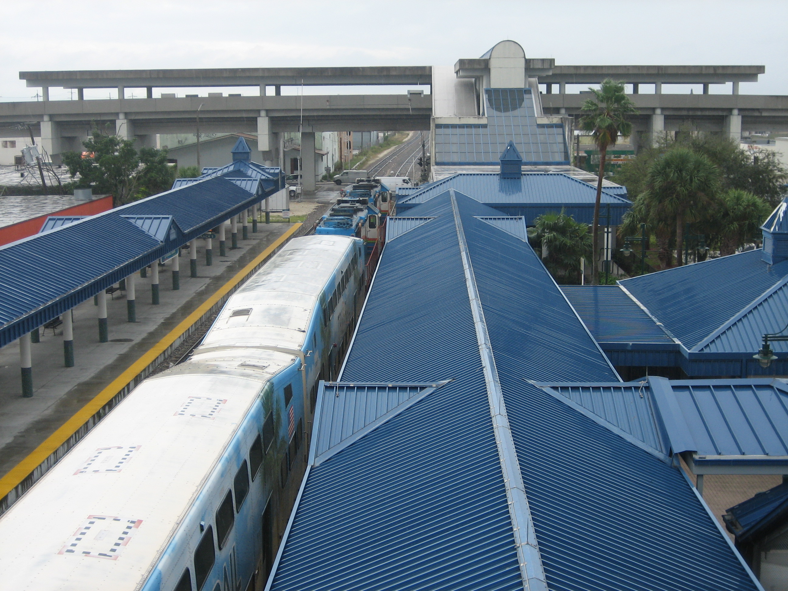 The Tri-Rail and Metrorail transfer station taken from the walking bridge. I uploaded this to replace the current and very outdated image of the Tri-Rail and Metrorail transfer station.